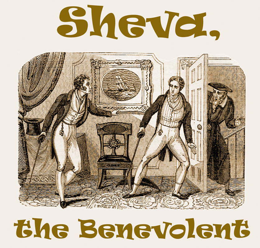 Public domain artwork from the play "The Jew" as used on the cover of "Sheva, the Benevolent."